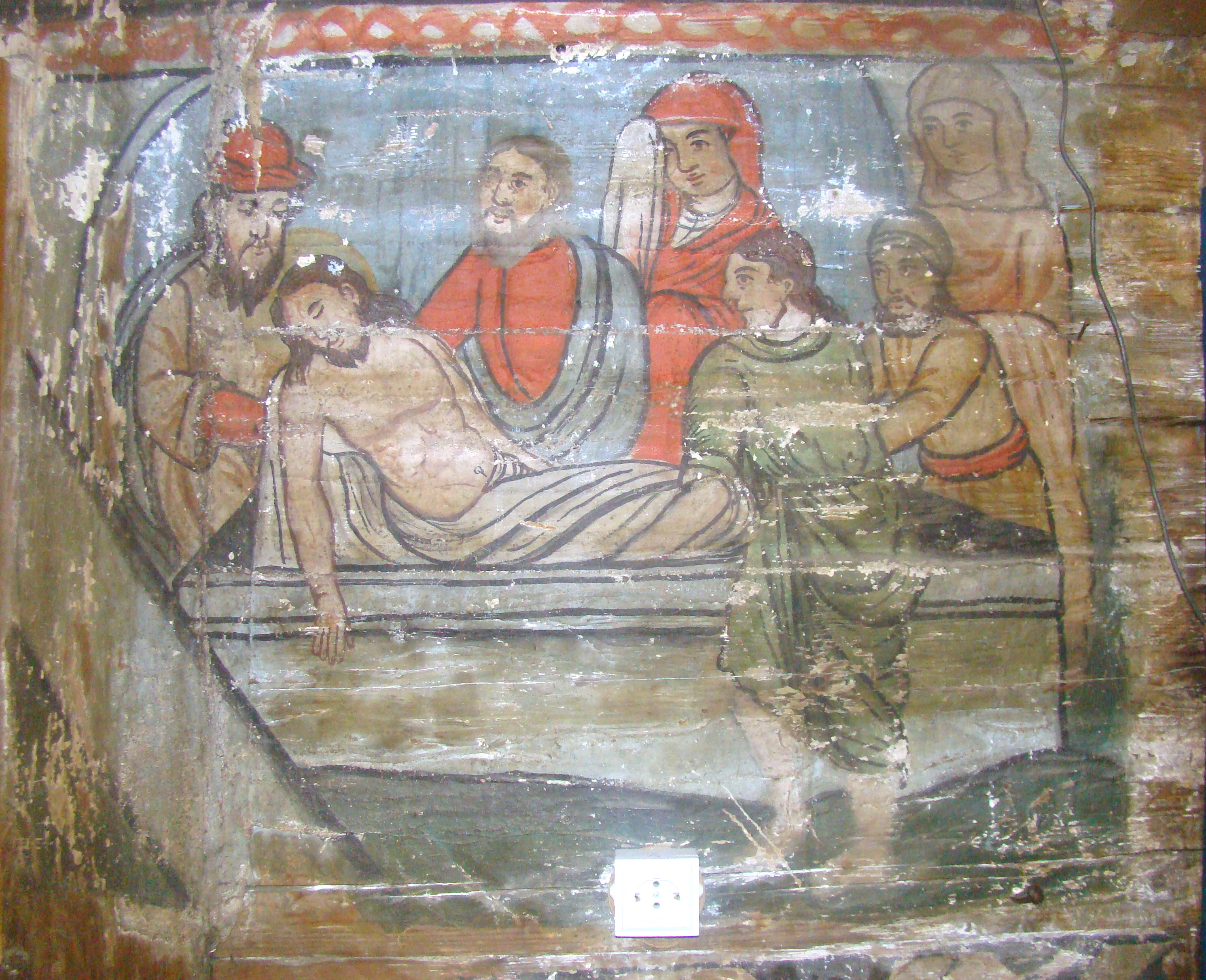 Wooden church in Săcalu de Pădure, Mureș countyRomână: Biserica de lemn din Săcalu de Pădure, județul Mureș